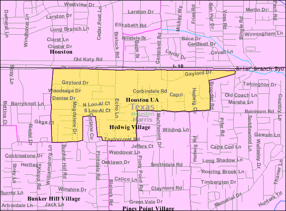 Map of Hedwig Village, Texas